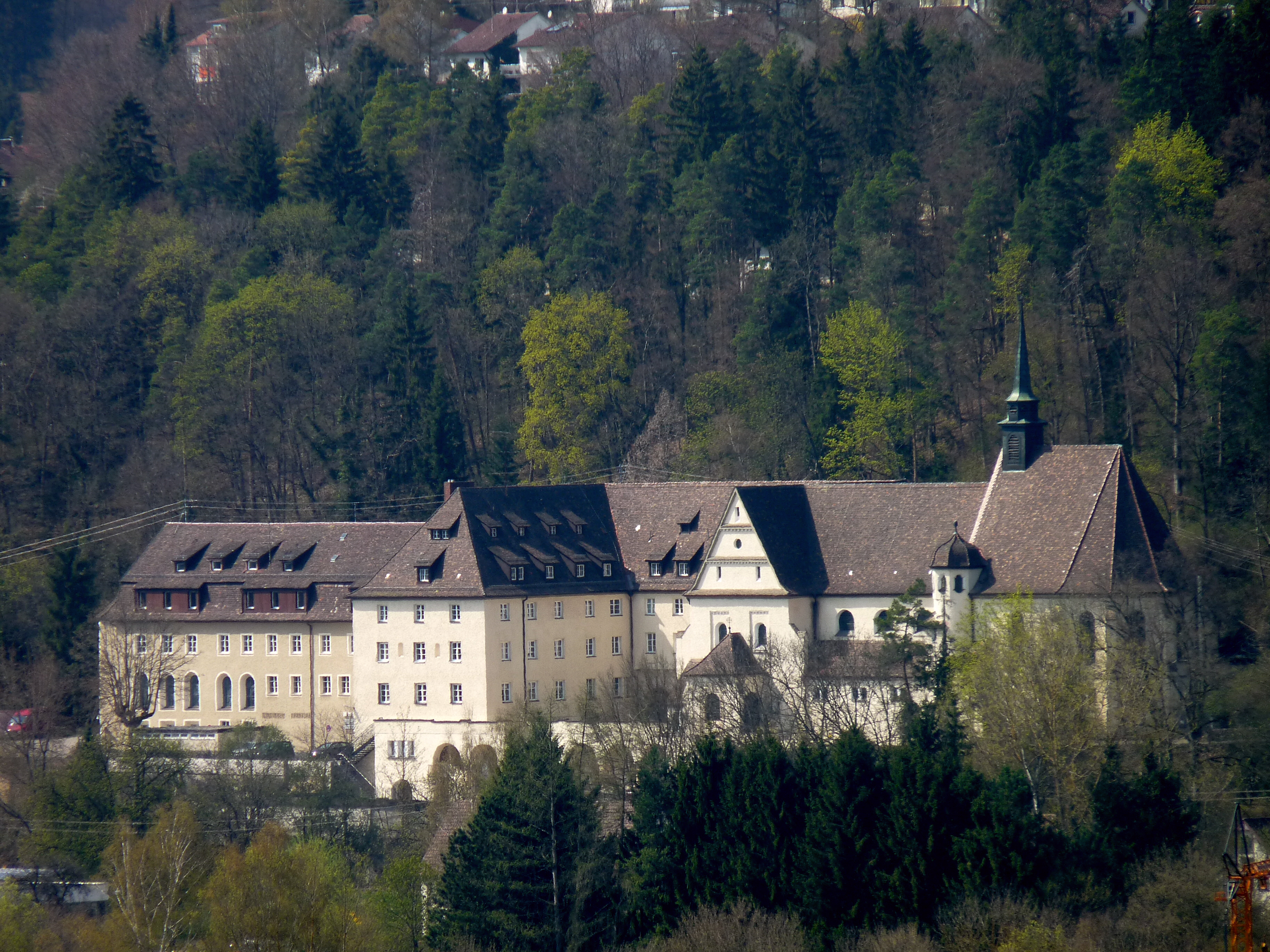 Gorheim Monastery, Sigmaringen, Germany